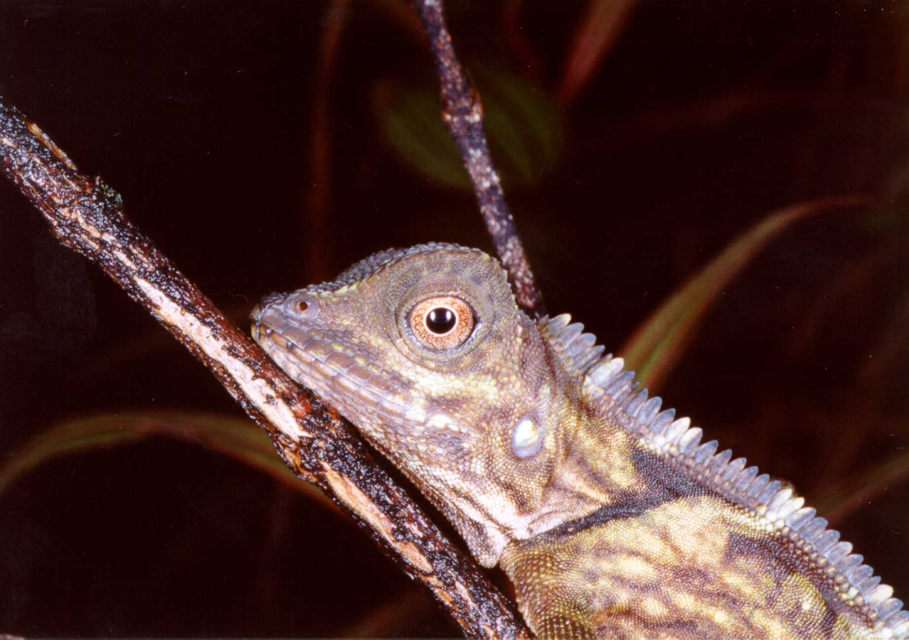 MT Abdullah. Tabdulla| 10:04, 15 October 2006 (UTC)